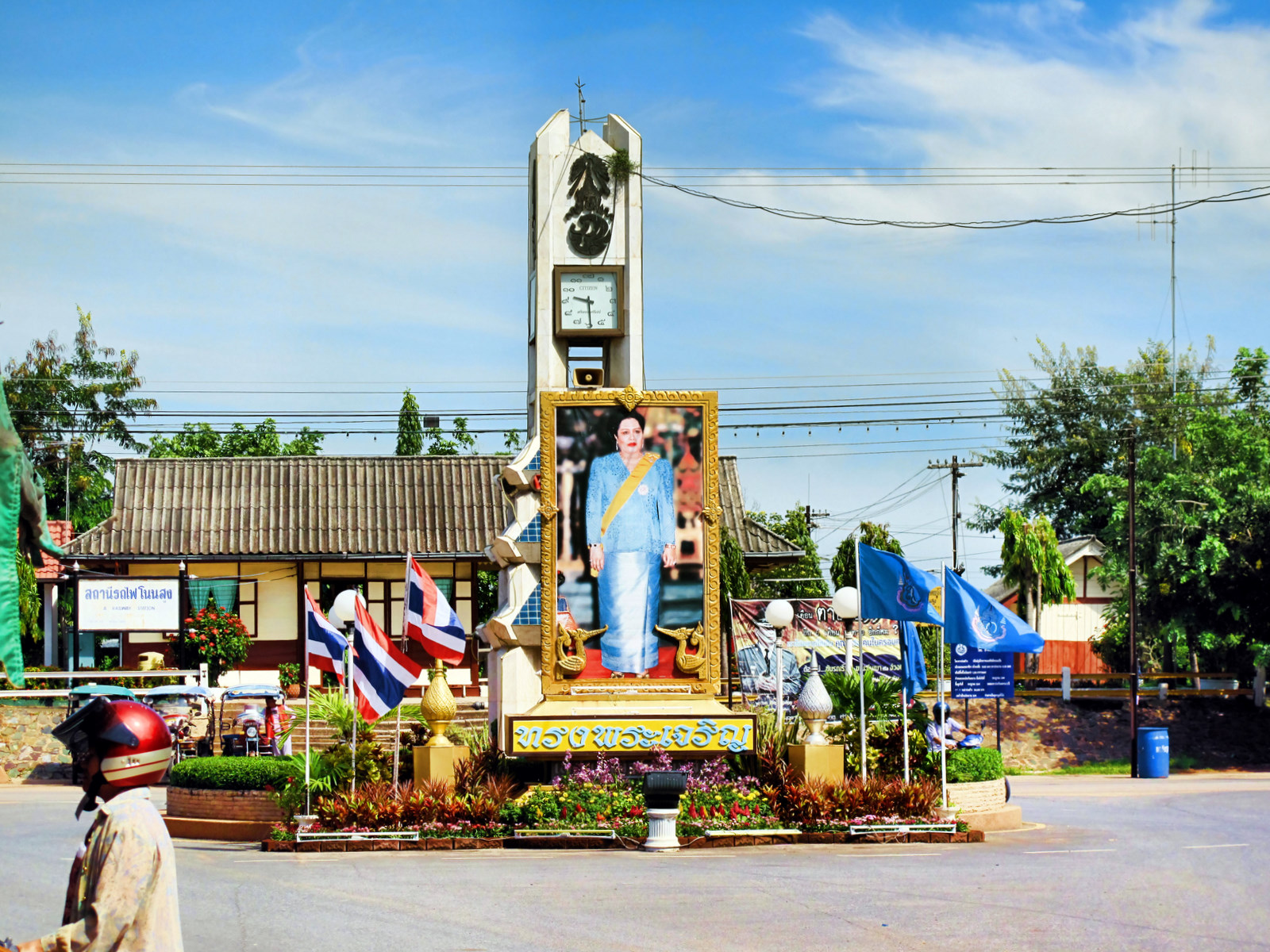 Amphoe Non Sung 30160, Nakhon Ratchasima Province, Thailand. Clocktower and Railwaystation